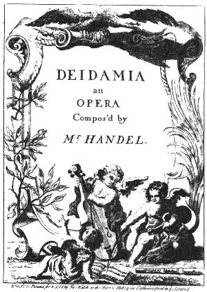 Georg Friedrich Händel - Deidamia - title page of the libretto